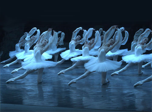 La Bayadere Ballet White Act